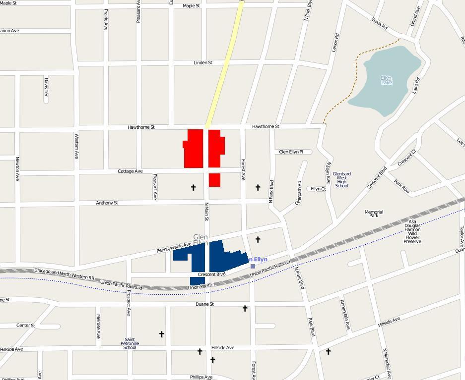 Glen Ellyn Main Street Historic District location in Glen Ellyn, Illinois Derivate work from